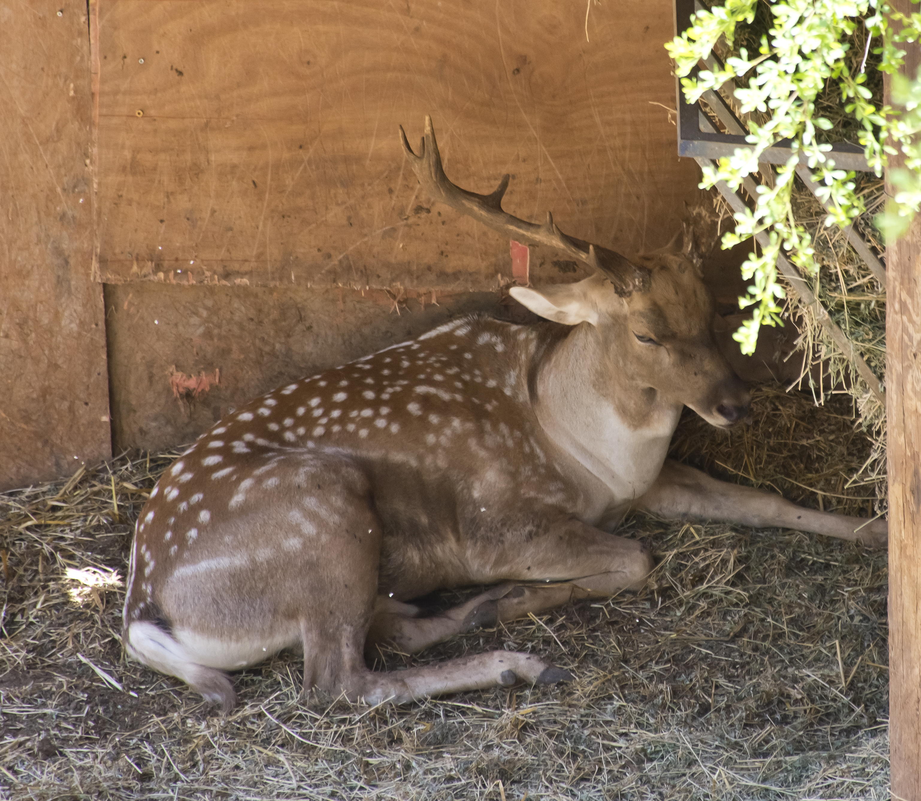 Haifa Educational Zoo, Haifa, Israel